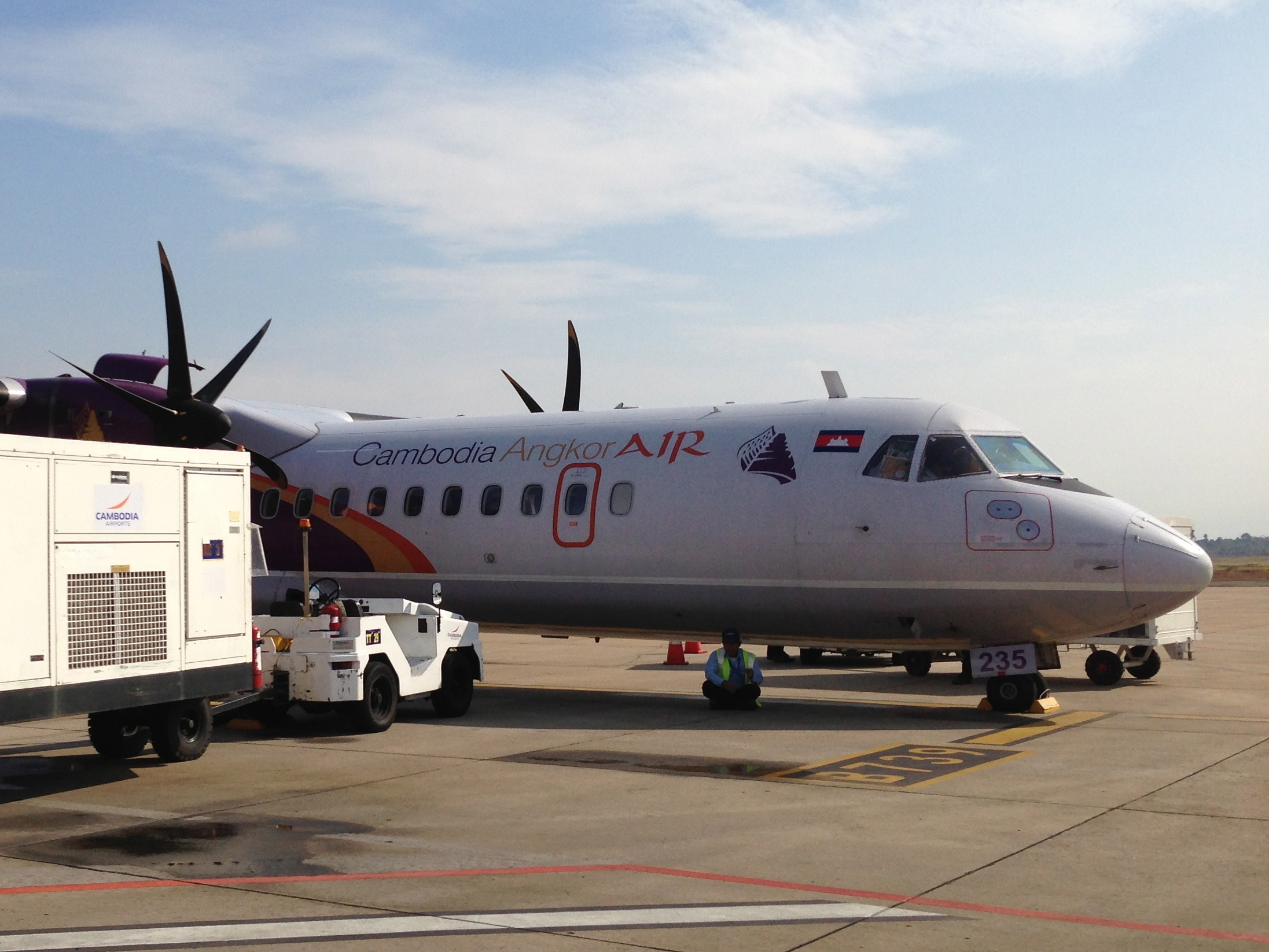 ATR72 aircraft of Cambodia Angkor Air at Phnom Penh Intl Airport. April 2013